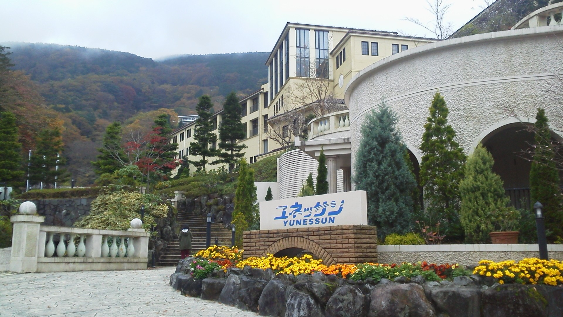 Hakone Kowakien Yunessun